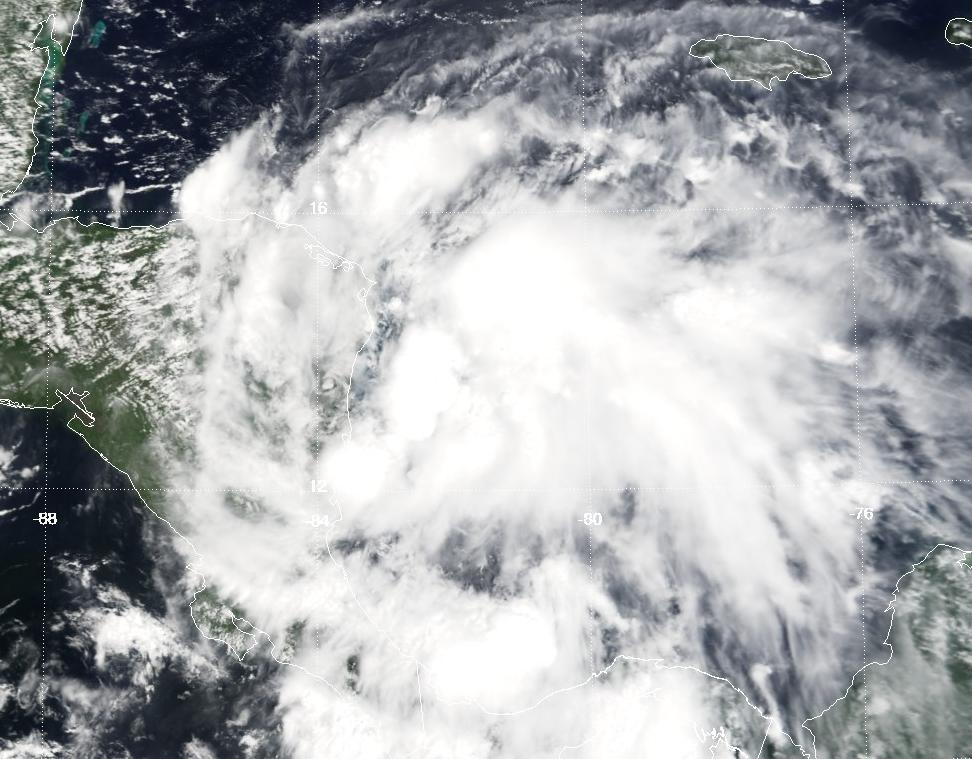 Tropical Depression Nine in the Caribbean Sea on September 19, 2001